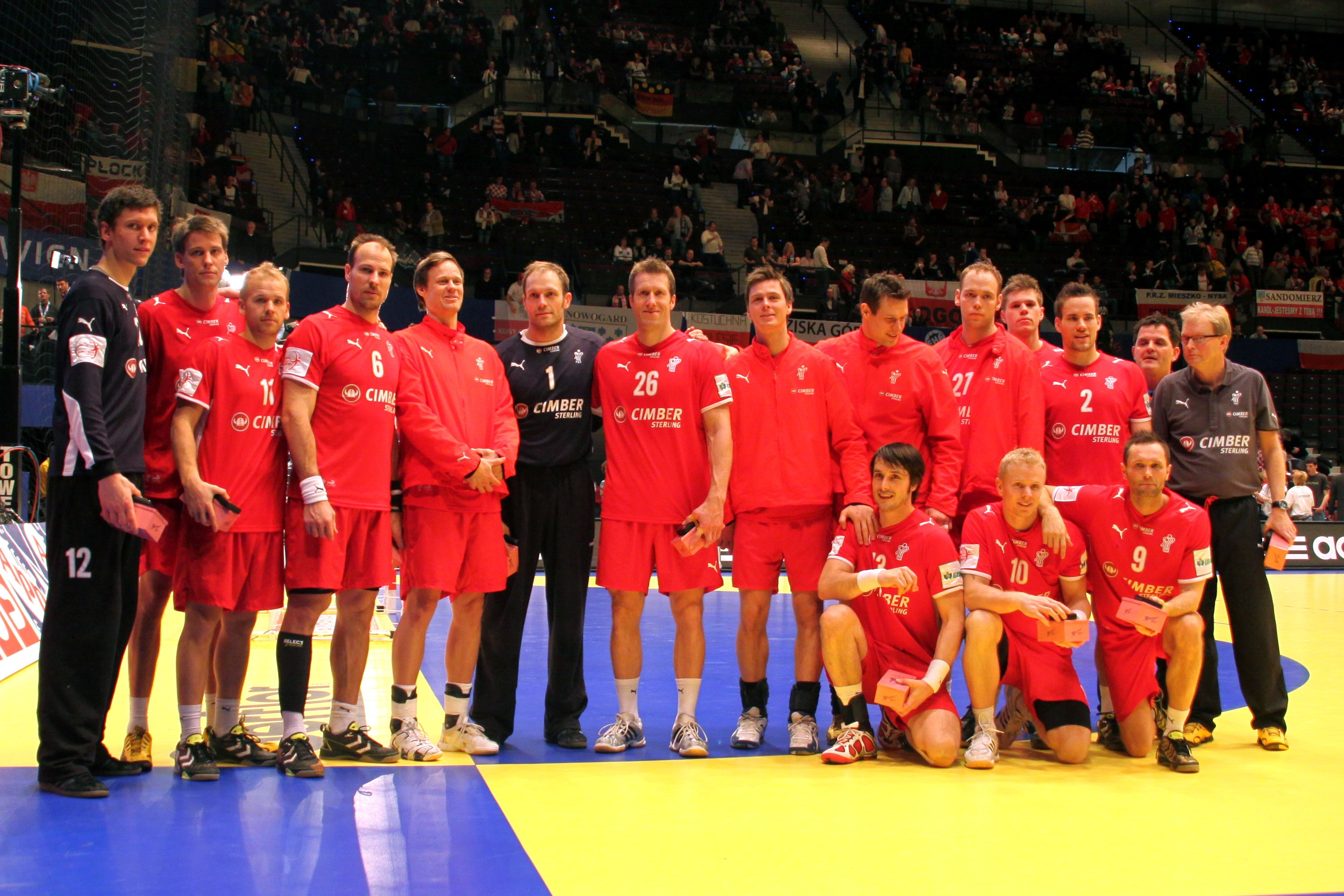 Denmark national handball team